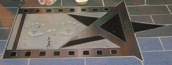 A set of handprints and autograph of John Woo at Hong Kong's Avenue of Stars. (Taken by Alanmak in 2004.) category:Images of Hong Kong